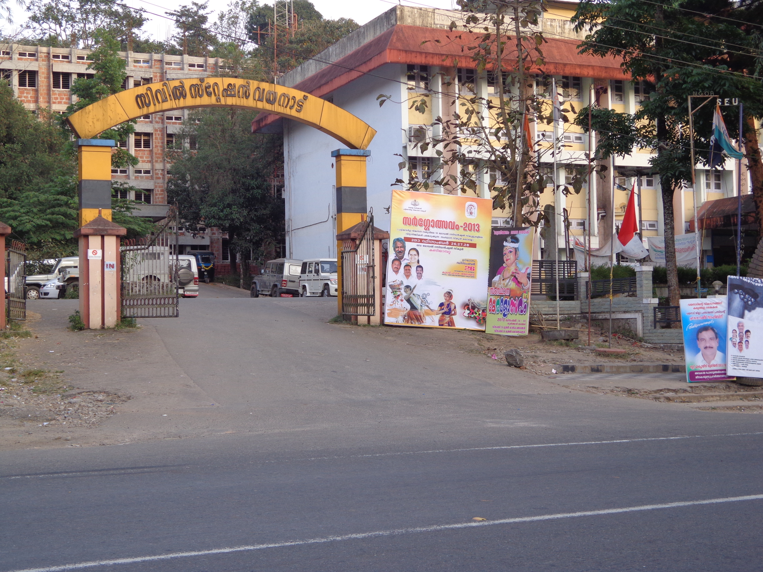 Civil Station complex at Kalpetta, housing the administrative headquarters of Wayanad District of Kerala State, India.